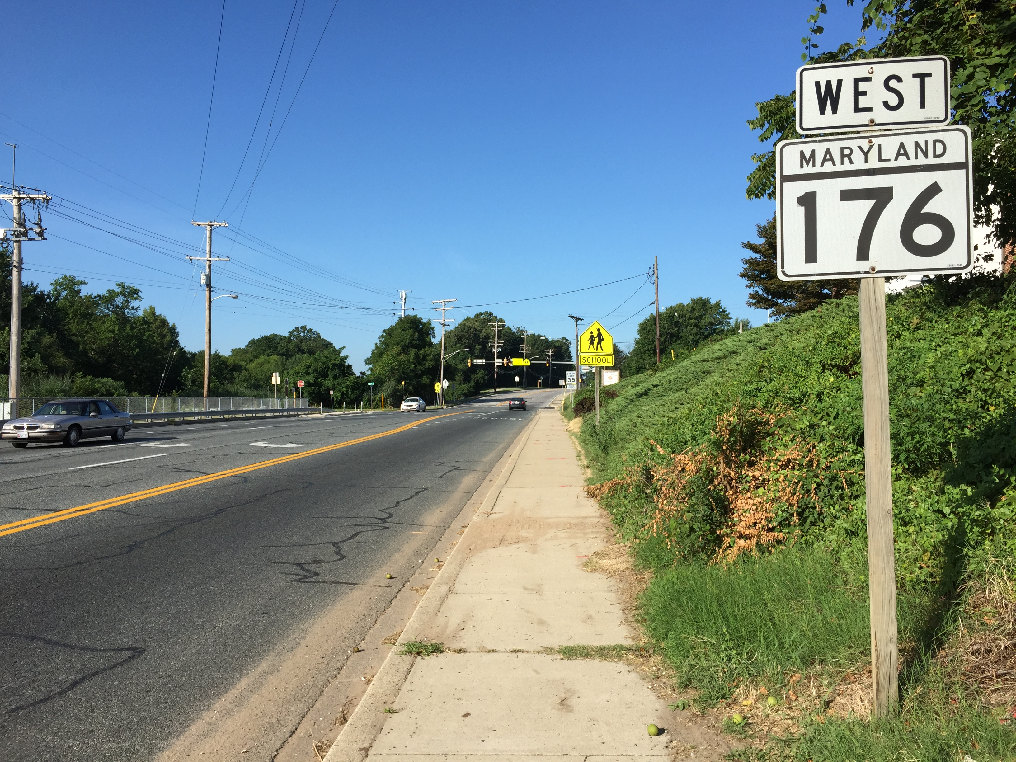 View west along Maryland State Route 176 (Dorsey Road) at Maryland State Route 648 (Baltimore-Annapolis Boulevard) in Ferndale, Anne Arundel County, Maryland